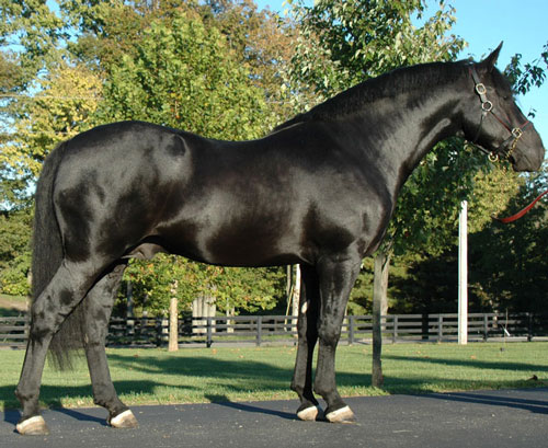 Photographer: Sabu Varghese Year: 2006 Photo taken at BenMar Farm, Goshen, Kentucky, USA.